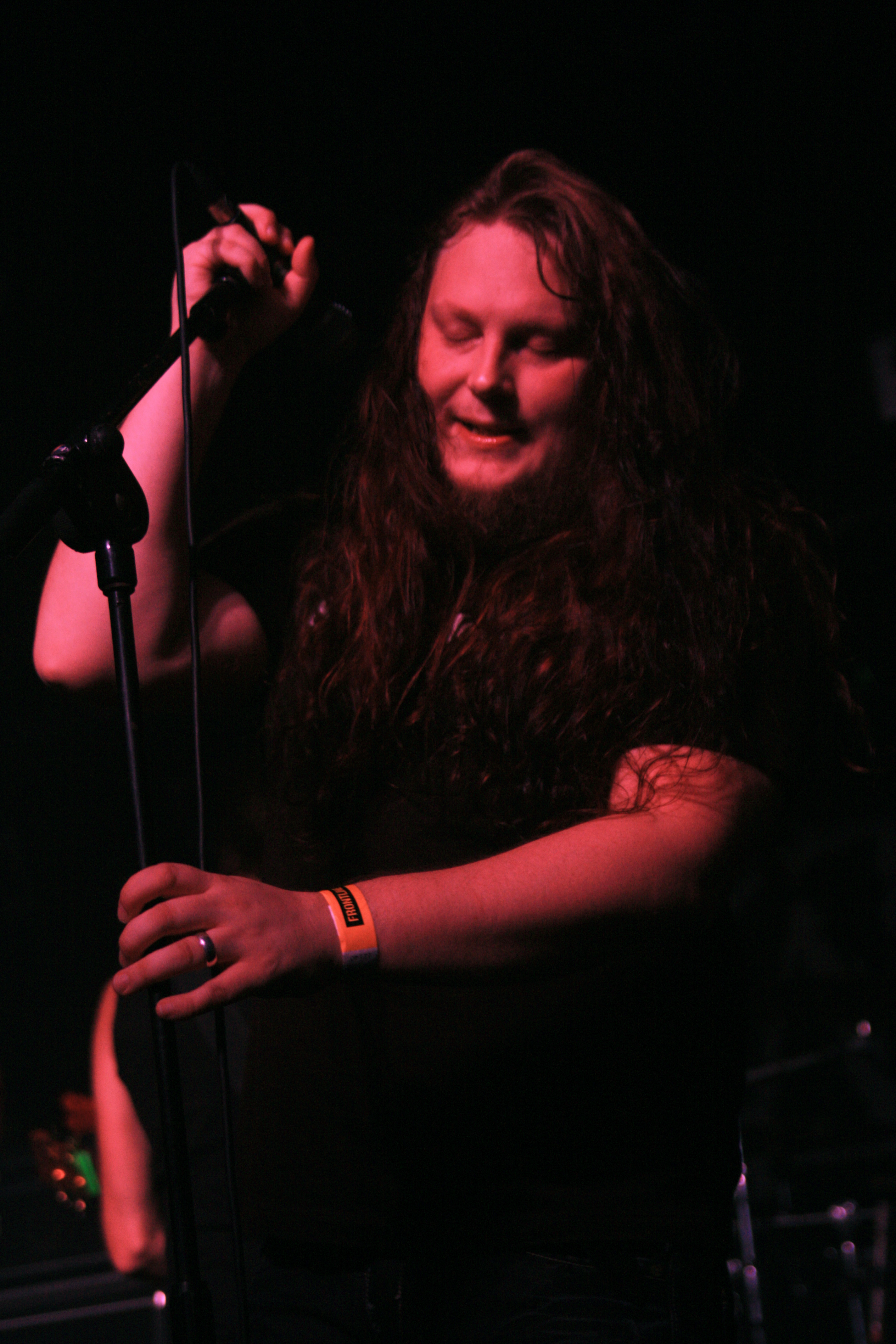 Katatonia at Barcelona (Jonas Renkse)